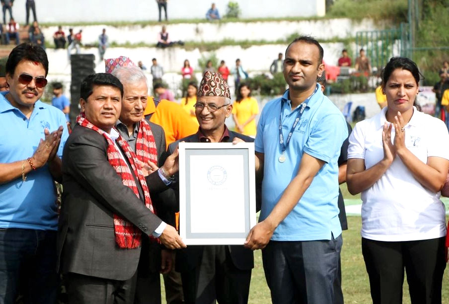 Melancholy Certificate Distribution on October 2018